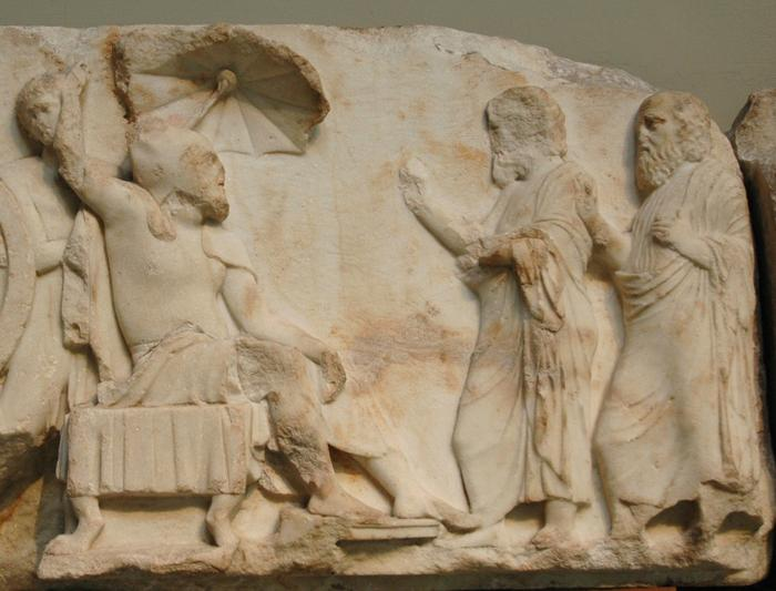 Official receiving visitors. Frieze II, block 879 of the Monument of the Nereids (390-380 BC) at Xanthos, modern-day Turkey, now in the British Museum.